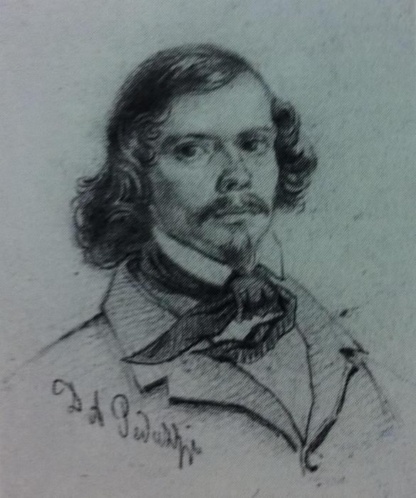 Hermanus Koekkoek sr.